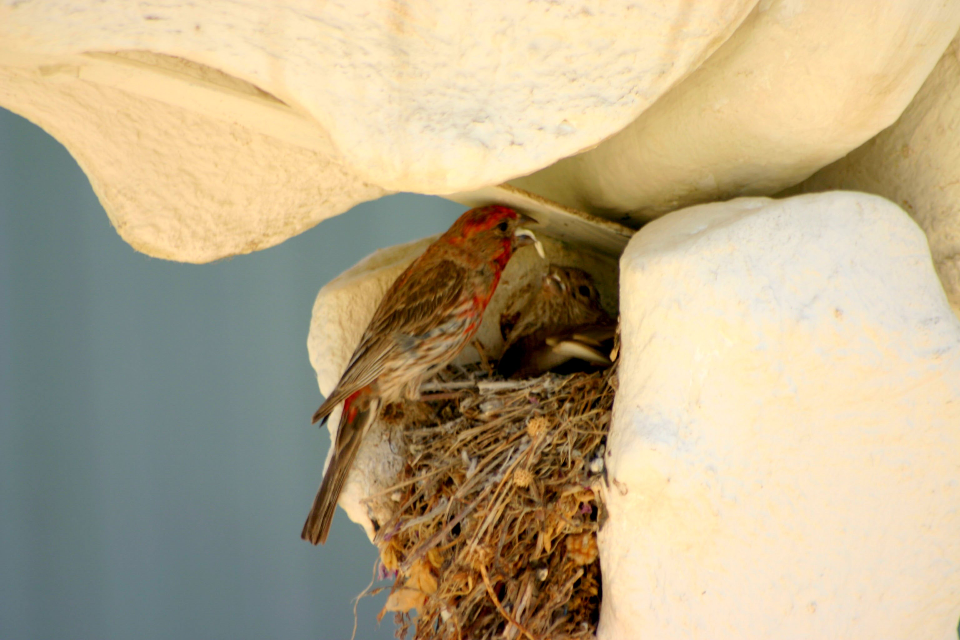 This finch built his nest underneath and inside a whale vertebra. Go, finch! Seymour Center at Long Marine Laboratory, Santa Cruz, California.